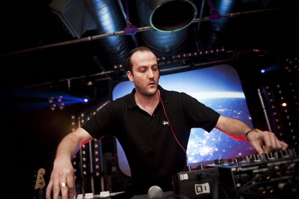 Fred Falke performing at Arches, Glasgow for a Northern Lights themed club night as part of the Smirnoff Battle of the Clubs tour in May 2012.